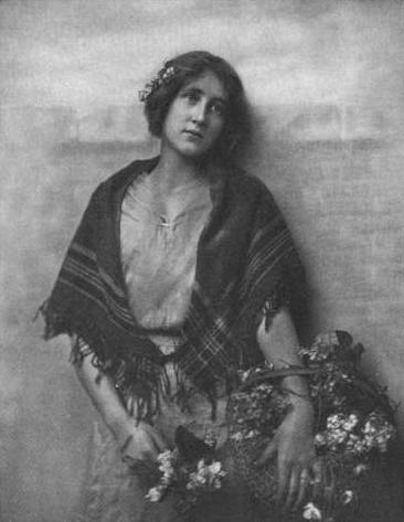 "The Flower Seller," a portrait by photographer Joseph Knaffl, taken circa 1916 at his Knoxville, Tennessee studio.